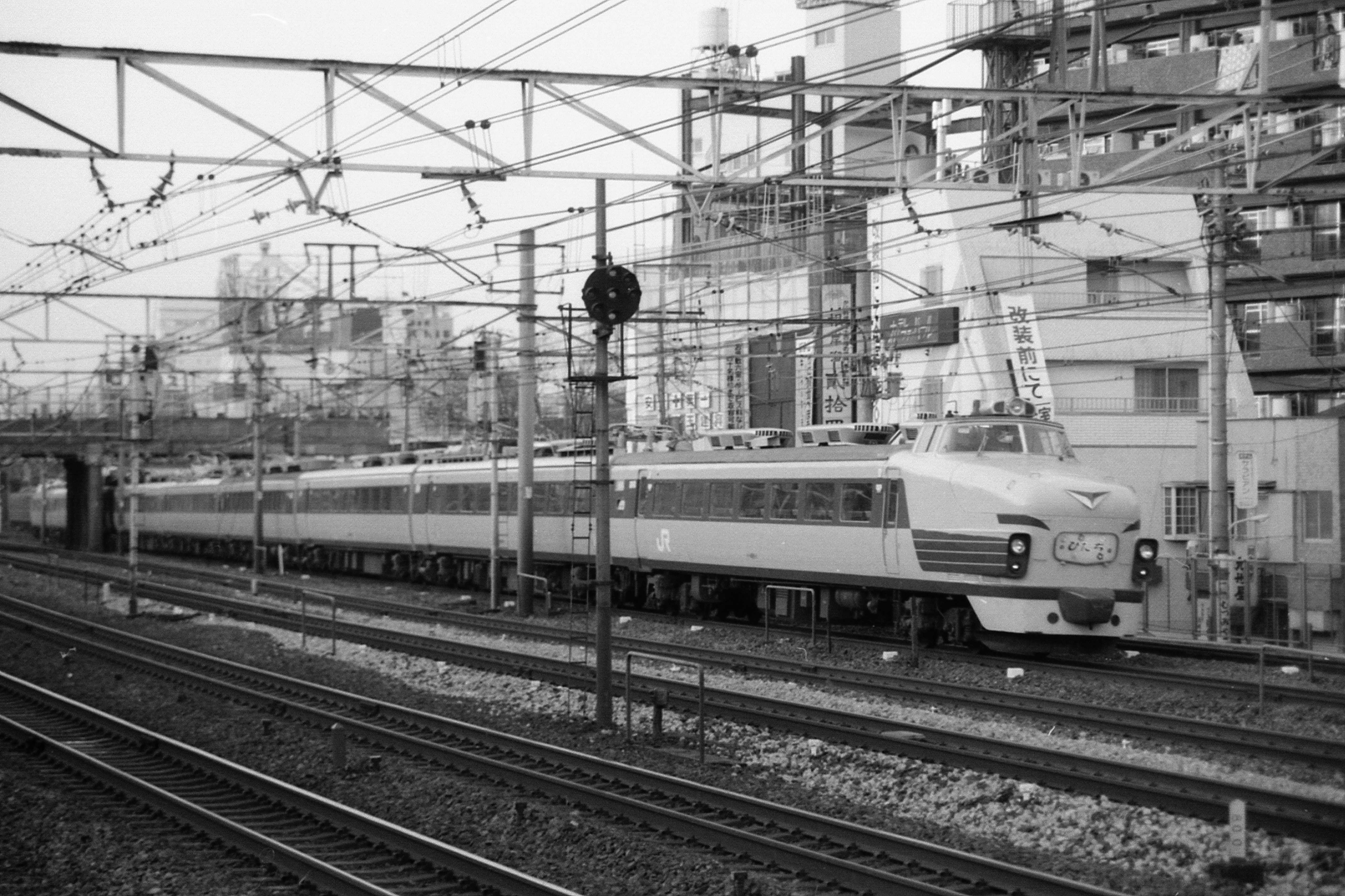 The first number of the Tc 481 run as the limited express Hitachi at Uguisudani